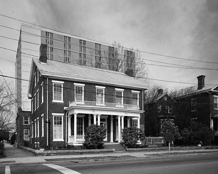 Woodrow Wilson Boyhood Home, 419 Seventh Street, Augusta (Richmond County, Georgia) - cropped This file comes from the Historic American Buildings Survey (HABS), Historic American Engineering Record (HAER) or Historic American Landscapes Survey (HALS). These are programs of the National Park Service established for the purpose of documenting historic places. Records consist of measured drawings, archival photographs, and written reports. This tag does not indicate the copyright status of the attached work. A normal copyright tag is still required. See Commons:Licensing. This work is in the public domain in the United States because it is a work prepared by an officer or employee of the United States Government as part of that person’s official duties under the terms of Title 17, Chapter 1, Section 105 of the US Code. Note: This only applies to original works of the Federal Government and not to the work of any individual U.S. state, territory, commonwealth, county, municipality, or any other subdivision. This template also does not apply to postage stamp designs published by the United States Postal Service since 1978. (See § 313.6(C)(1) of Compendium of U.S. Copyright Office Practices). It also does not apply to certain US coins; see The US Mint Terms of Use. This file has been identified as being free of known restrictions under copyright law, including all related and neighboring rights. Object location33° 28′ 18″ N, 81° 57′ 55″ W